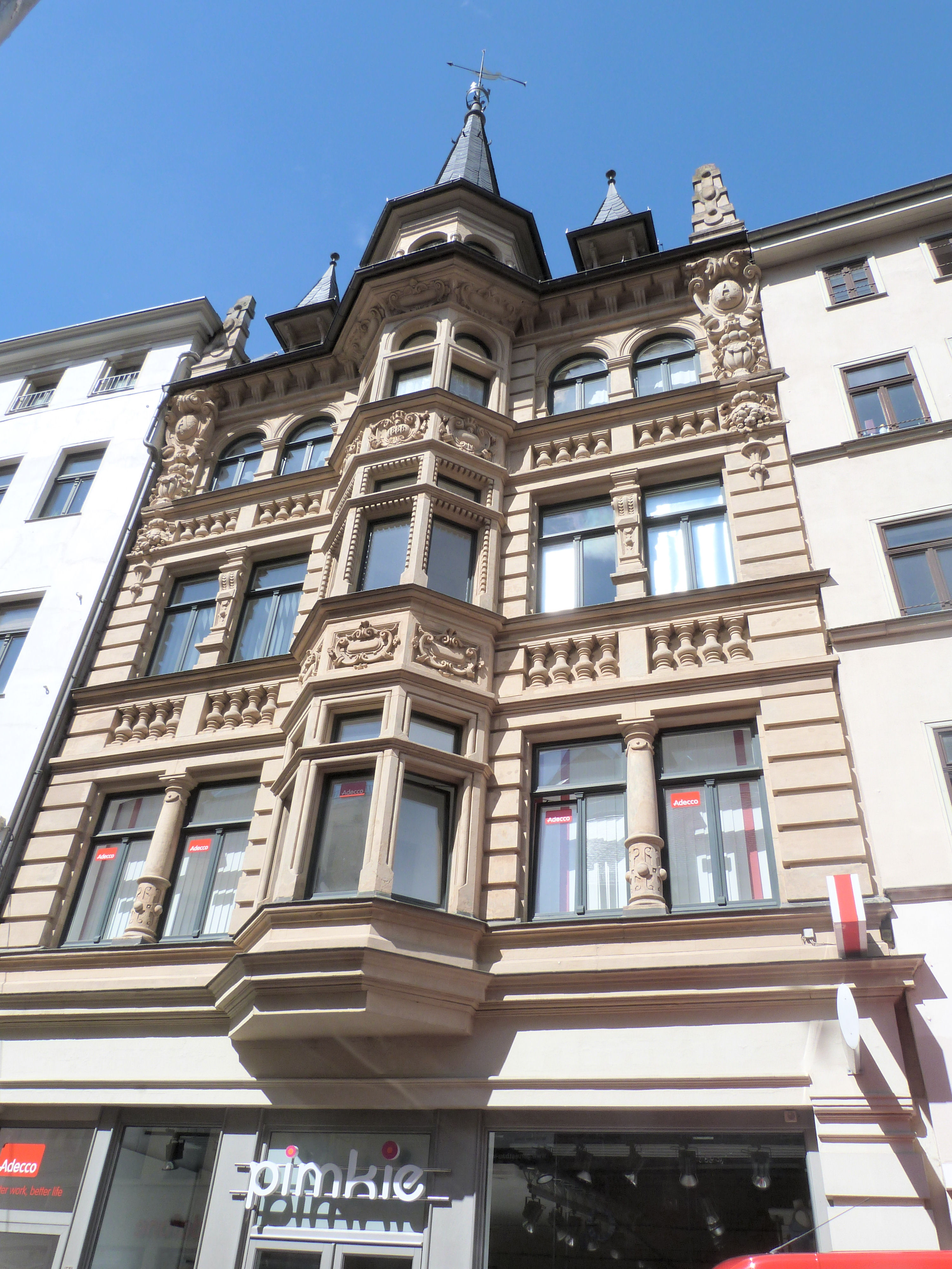 House No. 8, Leipziger Strasse, Halle (Saale)